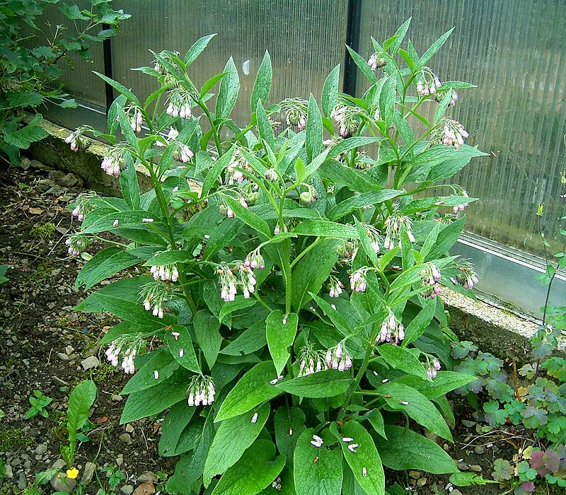 Symphytum officinale